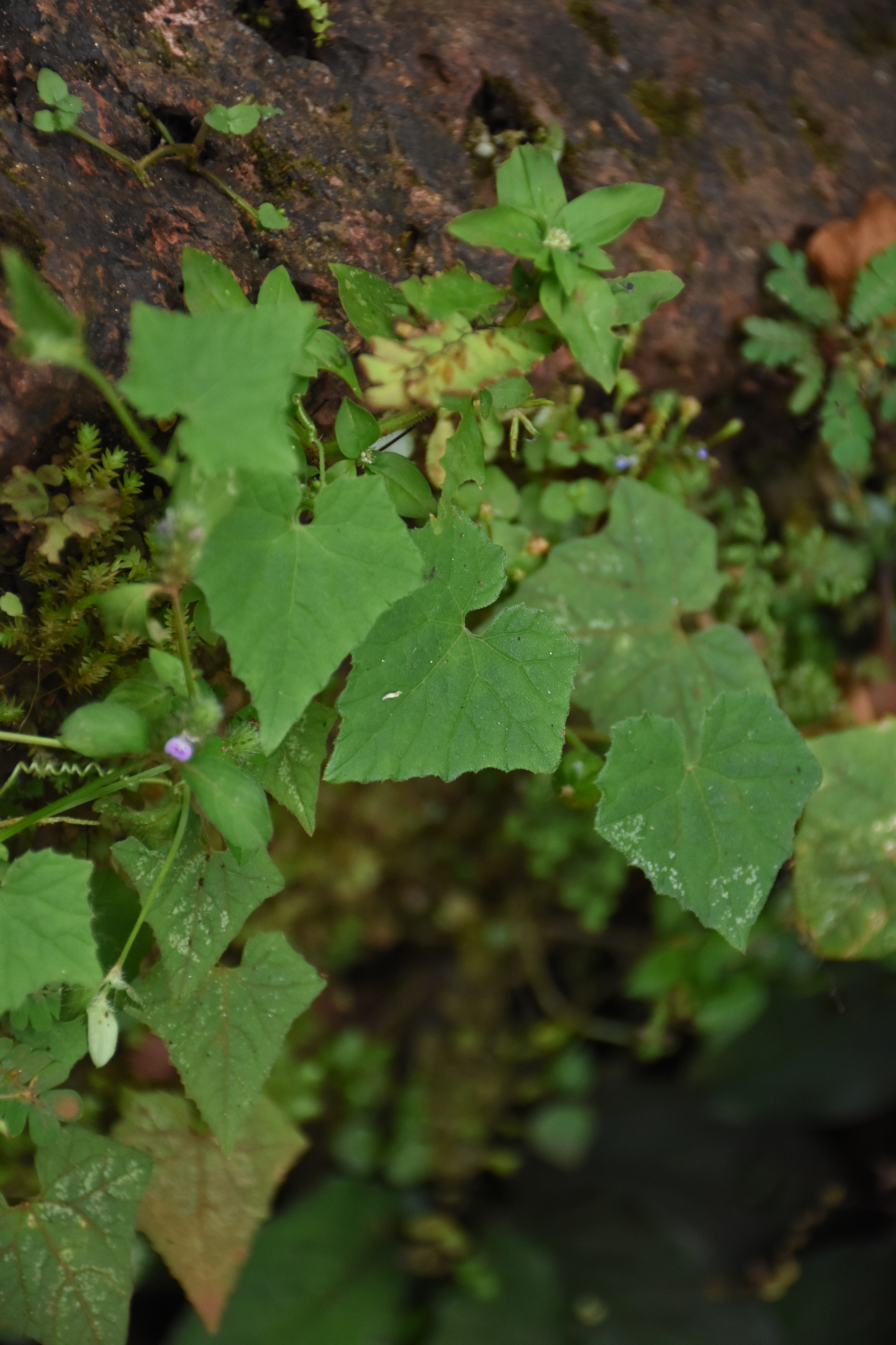 Mukia maderaspatana at Neeliyarkottam